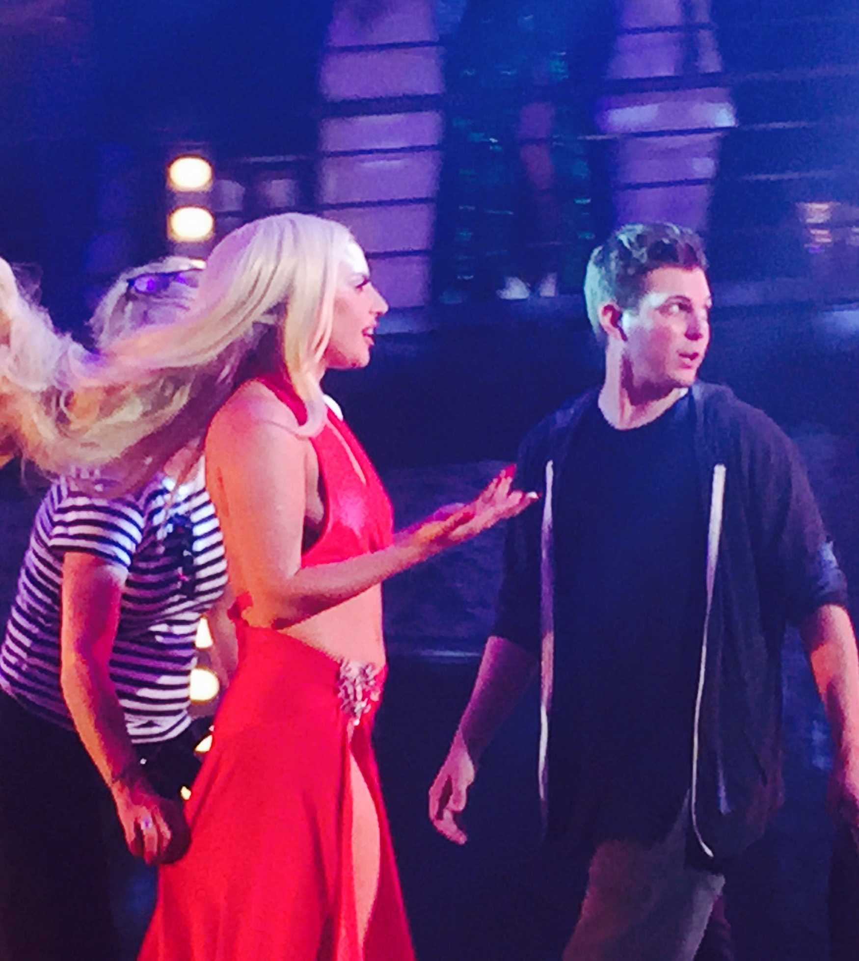 On the set of American Horror Story, Choreographer Paul Becker gives direction to Lady Gaga.